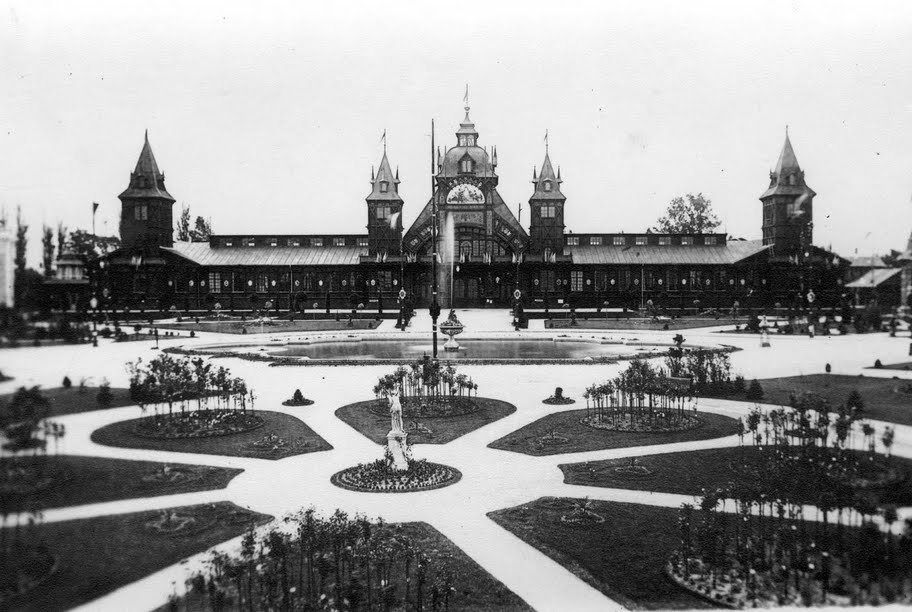 Stryjski Park in Lviv (Ukraine), the exposition in 1894.